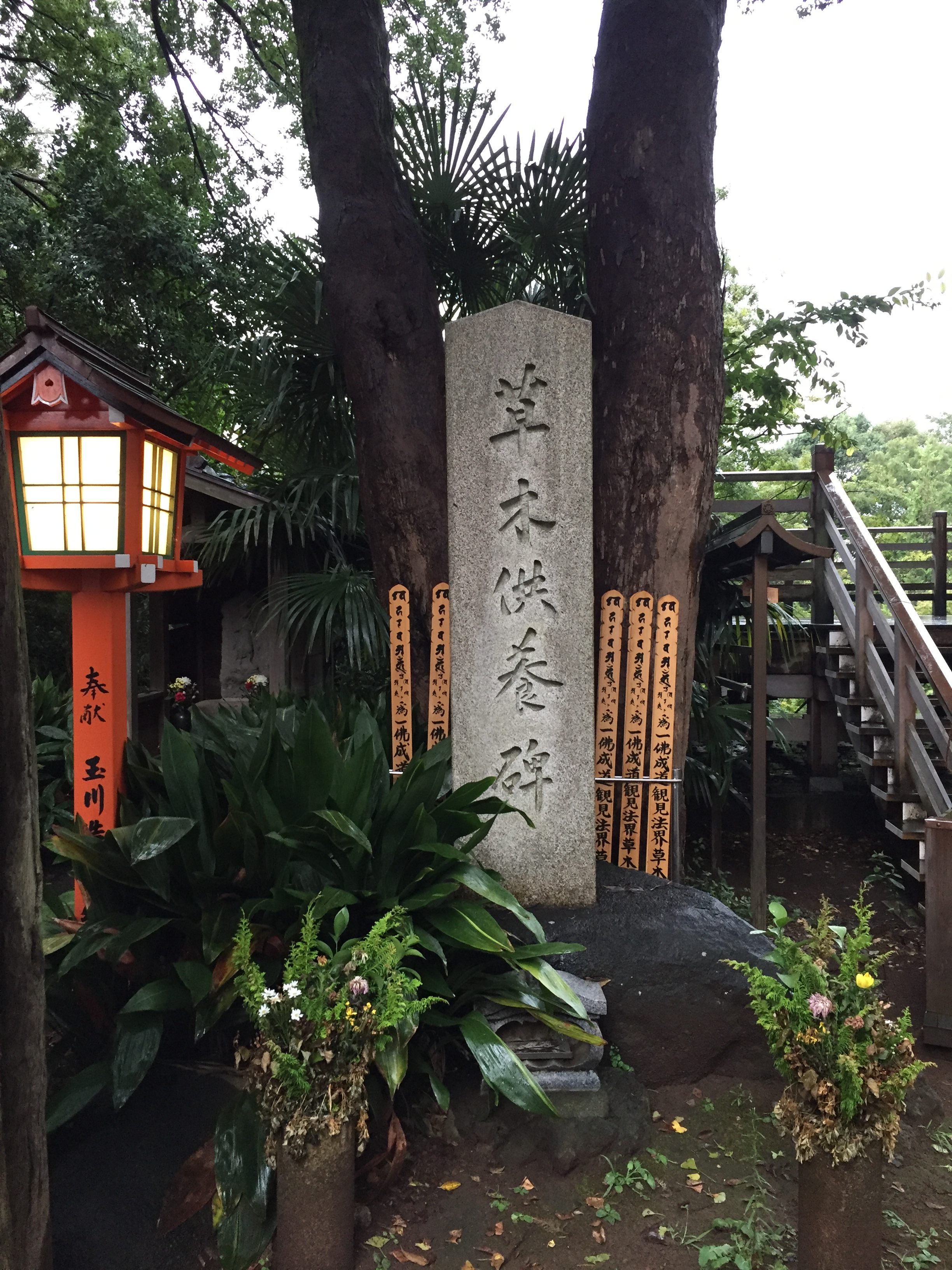 SOUMOKU KUYOU HI or "Cenotaph for Plants" at TODOROKI FUDOUSON Temple, Todoroki 1-22-47, Setagaya Ward, Tokyo, Japan.